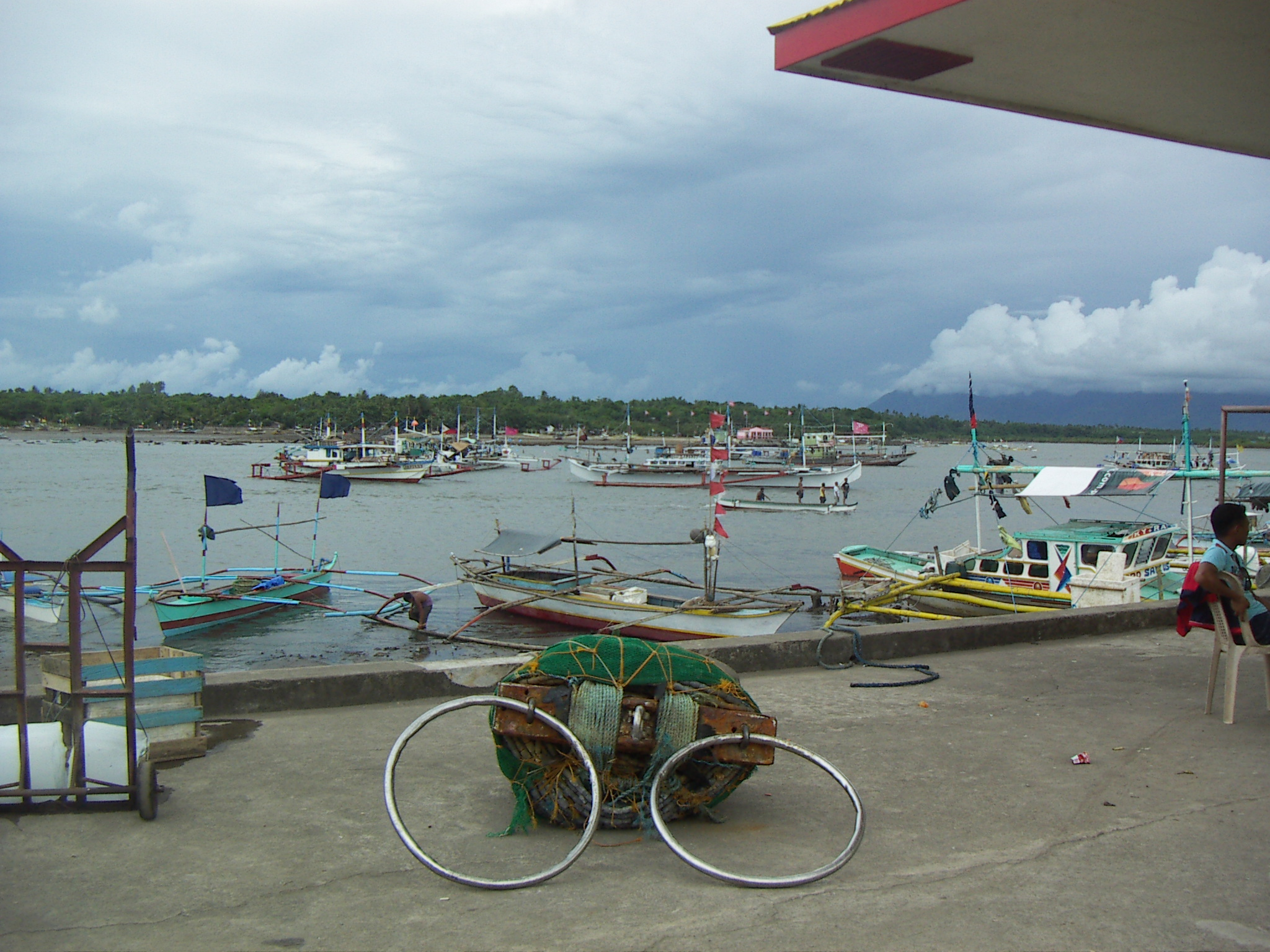 Mercedes, Camarines Norte, Philippines